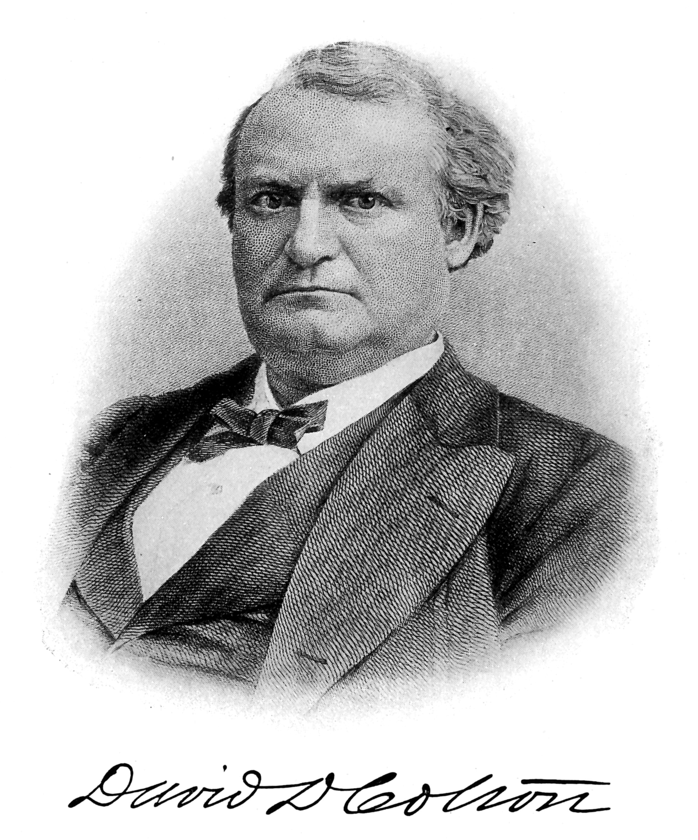 David Douty Colton (1831–1878), a California pioneer, entrepreneur, and politician for whom the city of Colton, California, was named